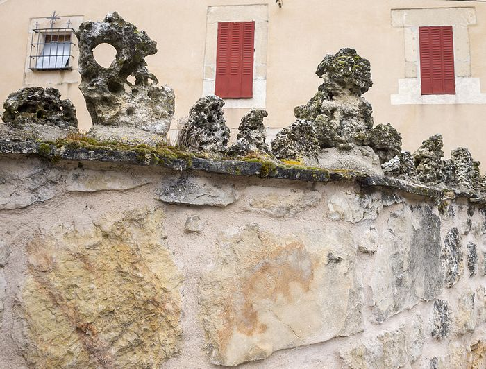 Piedras de ornamentación